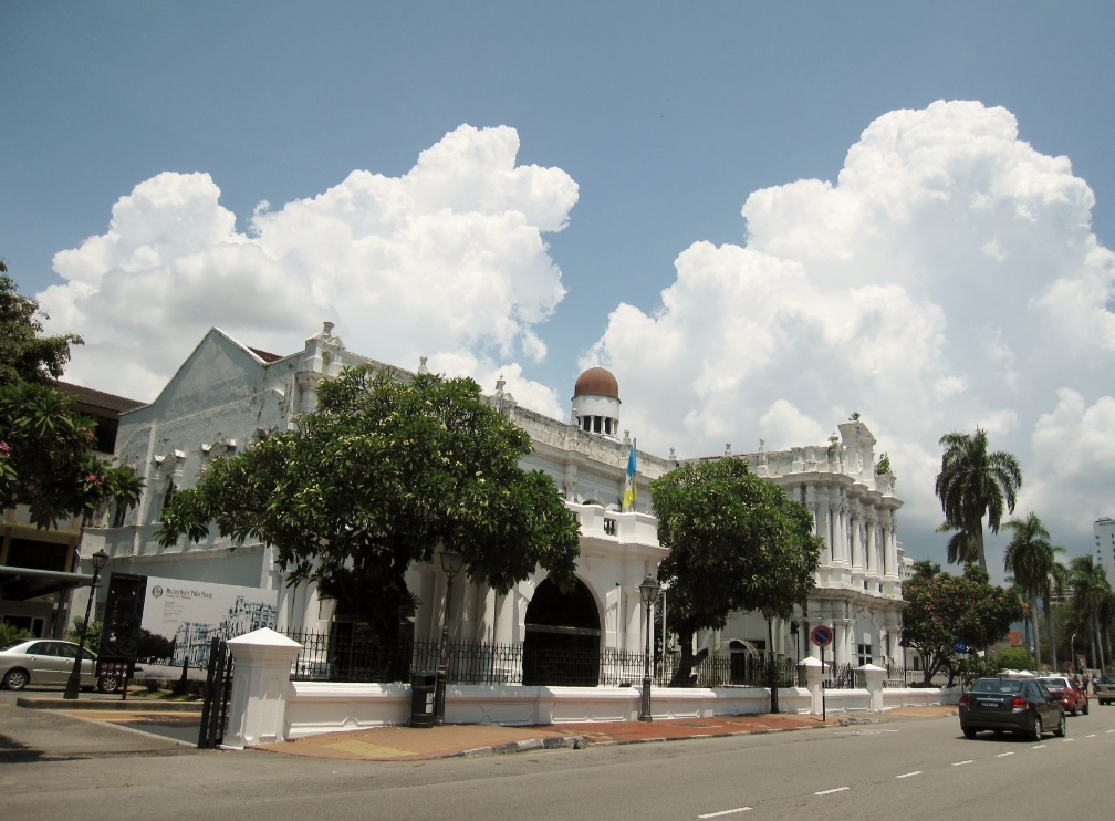 Penang State Museum, formerly used as the Penang Free School